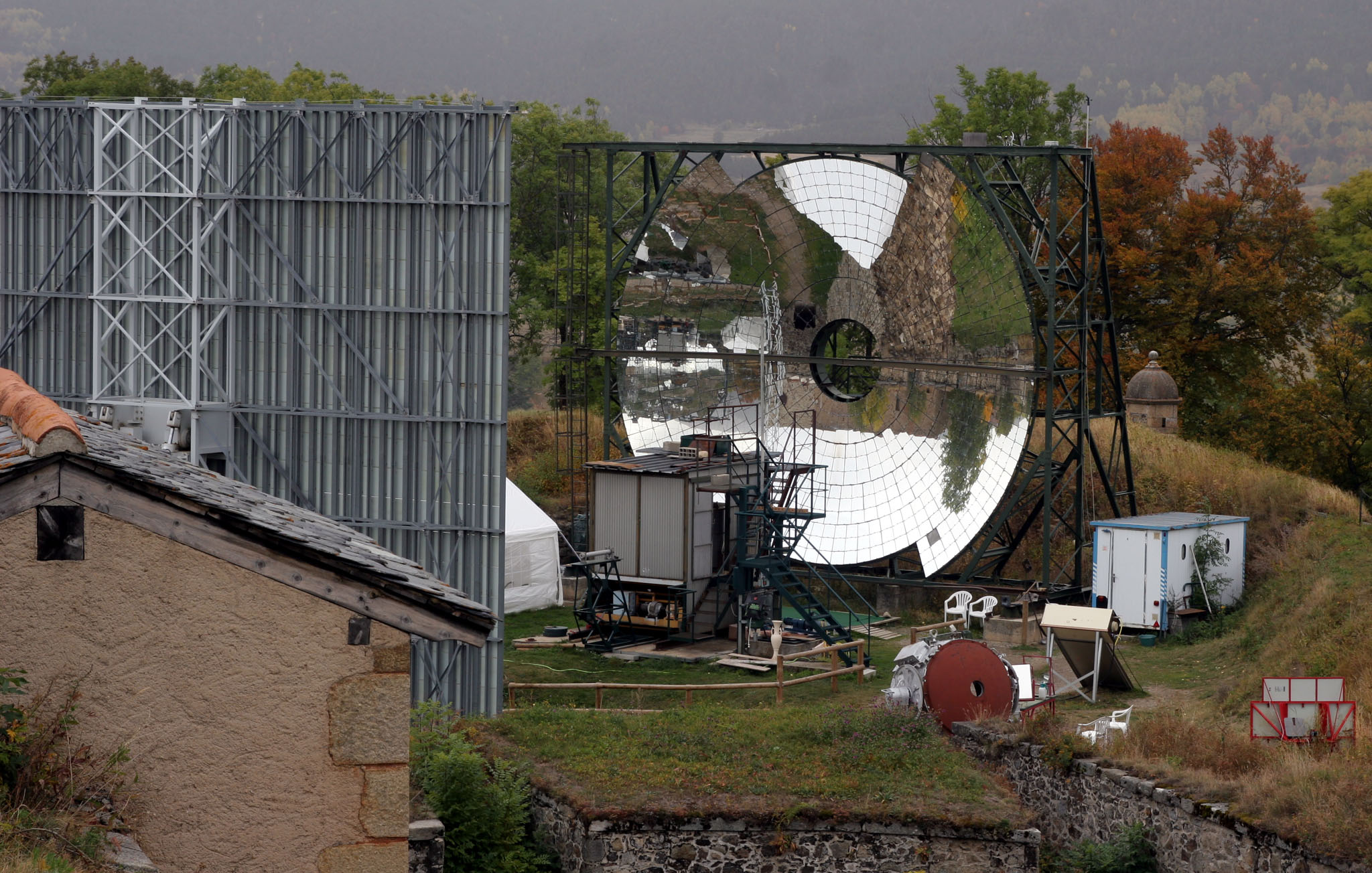 Mont-Louis in October 2008